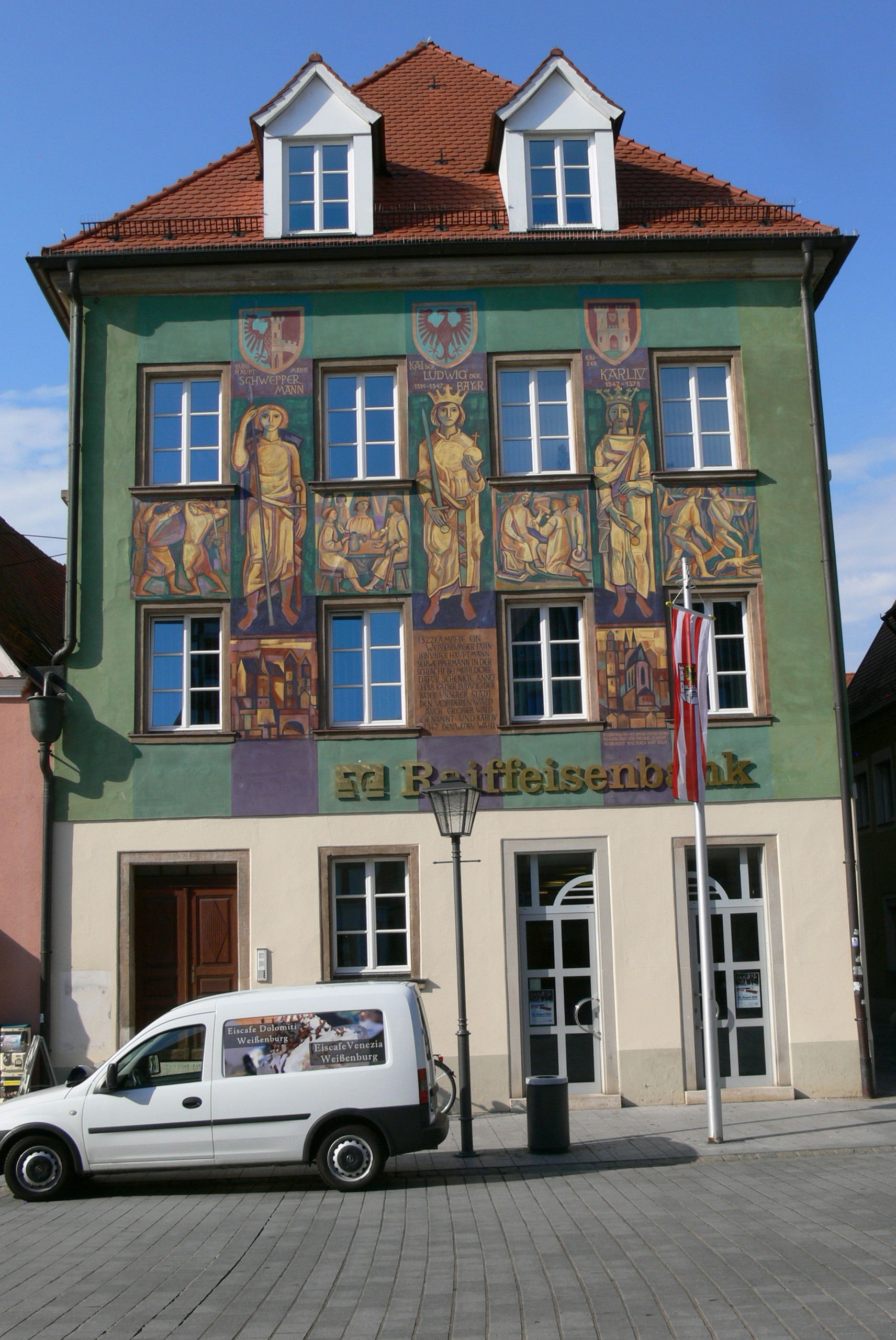 Weißenburg ( Bavaria ). Luitpold street Nr.13 with murals.